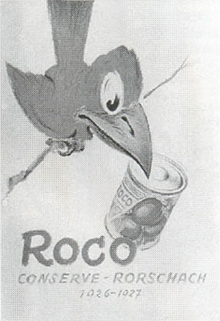 Picture with conservs in 1926.